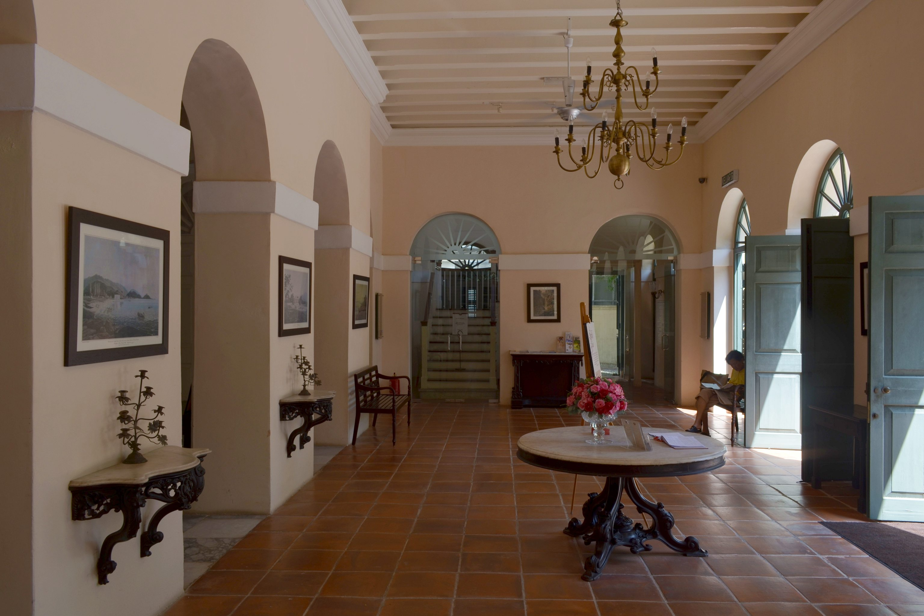 Entrance hall of Suffolk House, Penang. The staircase is visible in the background.